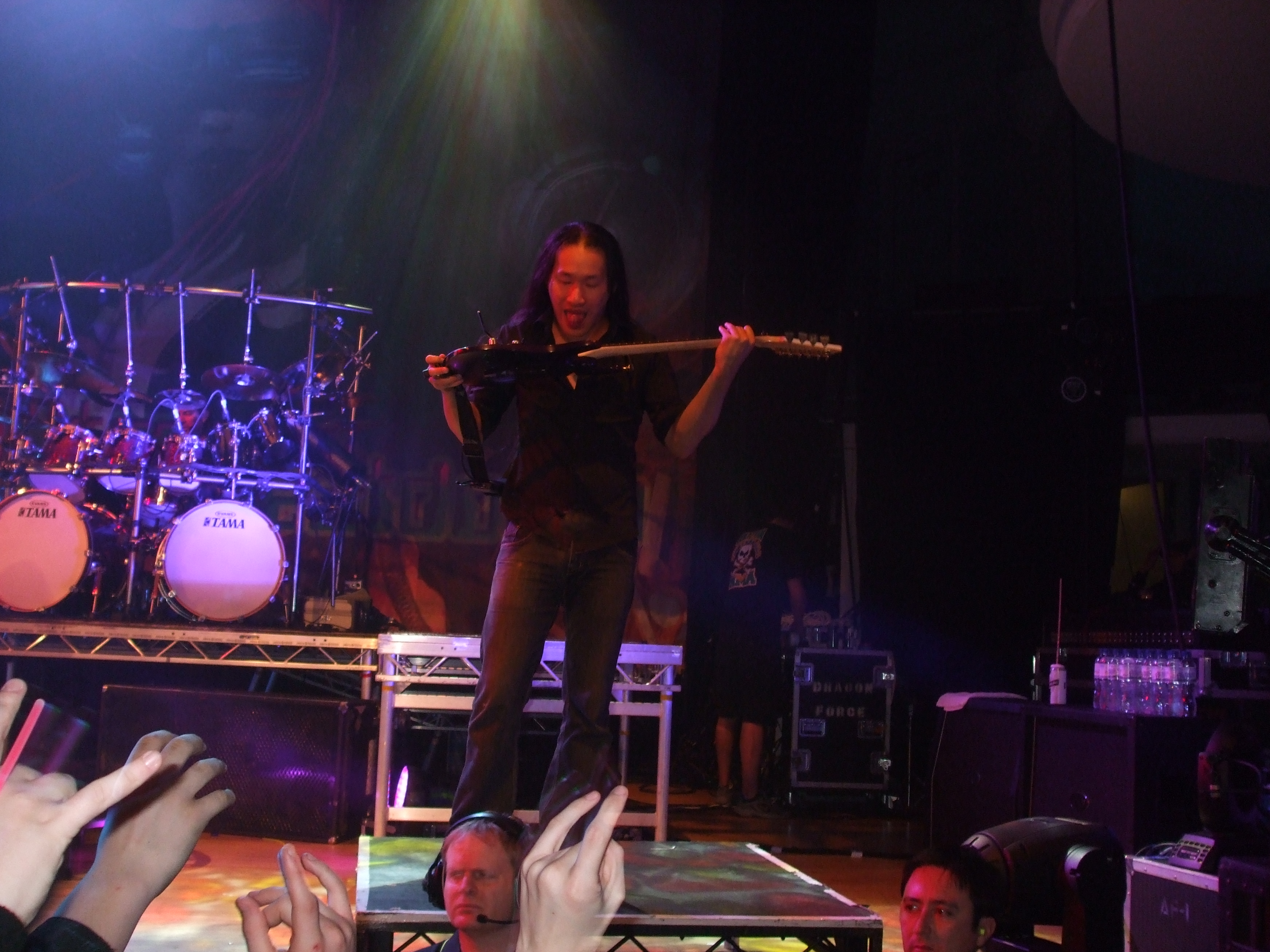 DragonForce performing at the Victoria Hall, Hanley on December 1st 2009.